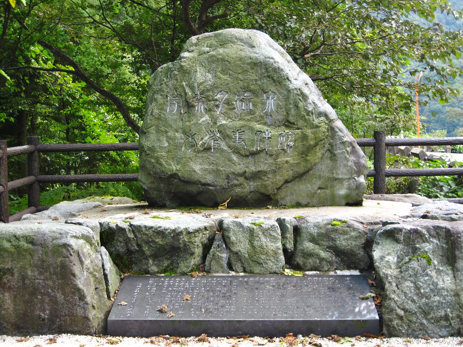 Unazuki Onsen incident monument.